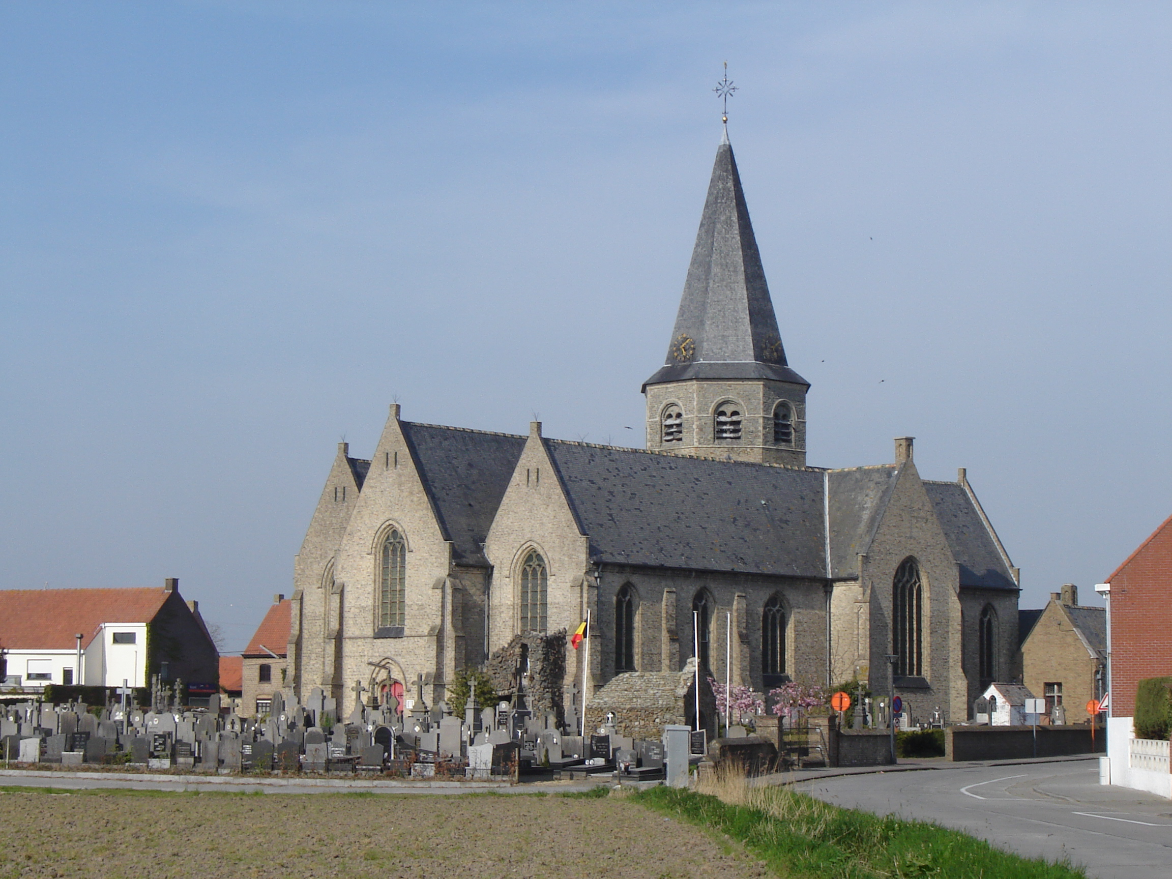 Church of Saint Martin in Vladslo, Diksmuide, West-Flanders, Belgium